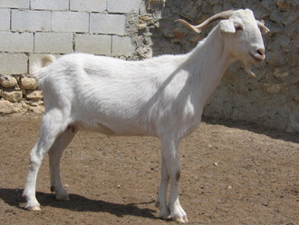 Cabra celtibèrica